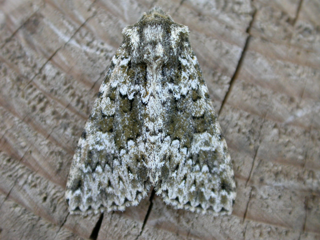 Polymixis polymita, to MV light, Hellerup, Denmark, 7 August 2003